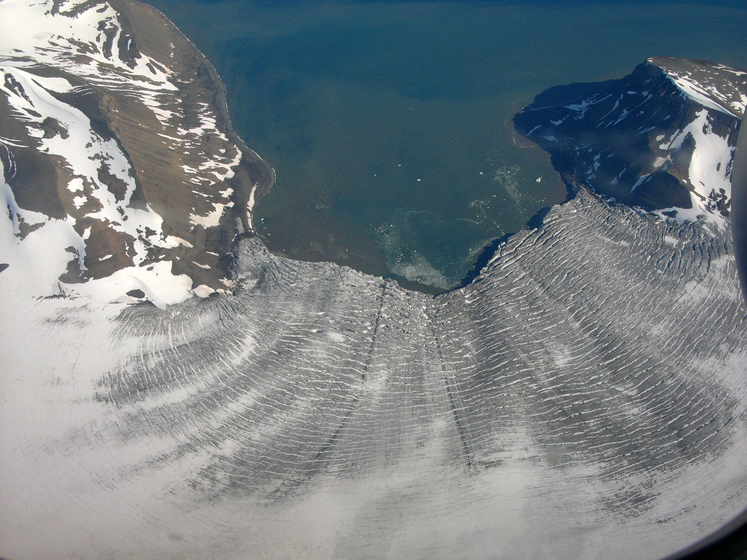 Glacier on Spitzbergen, view from plane during approach for landing. (User:Bjoertvedt: Seen from west towards east, this is definitely the outlet of Markhambreen on 17*25'E - 77*10'N.)